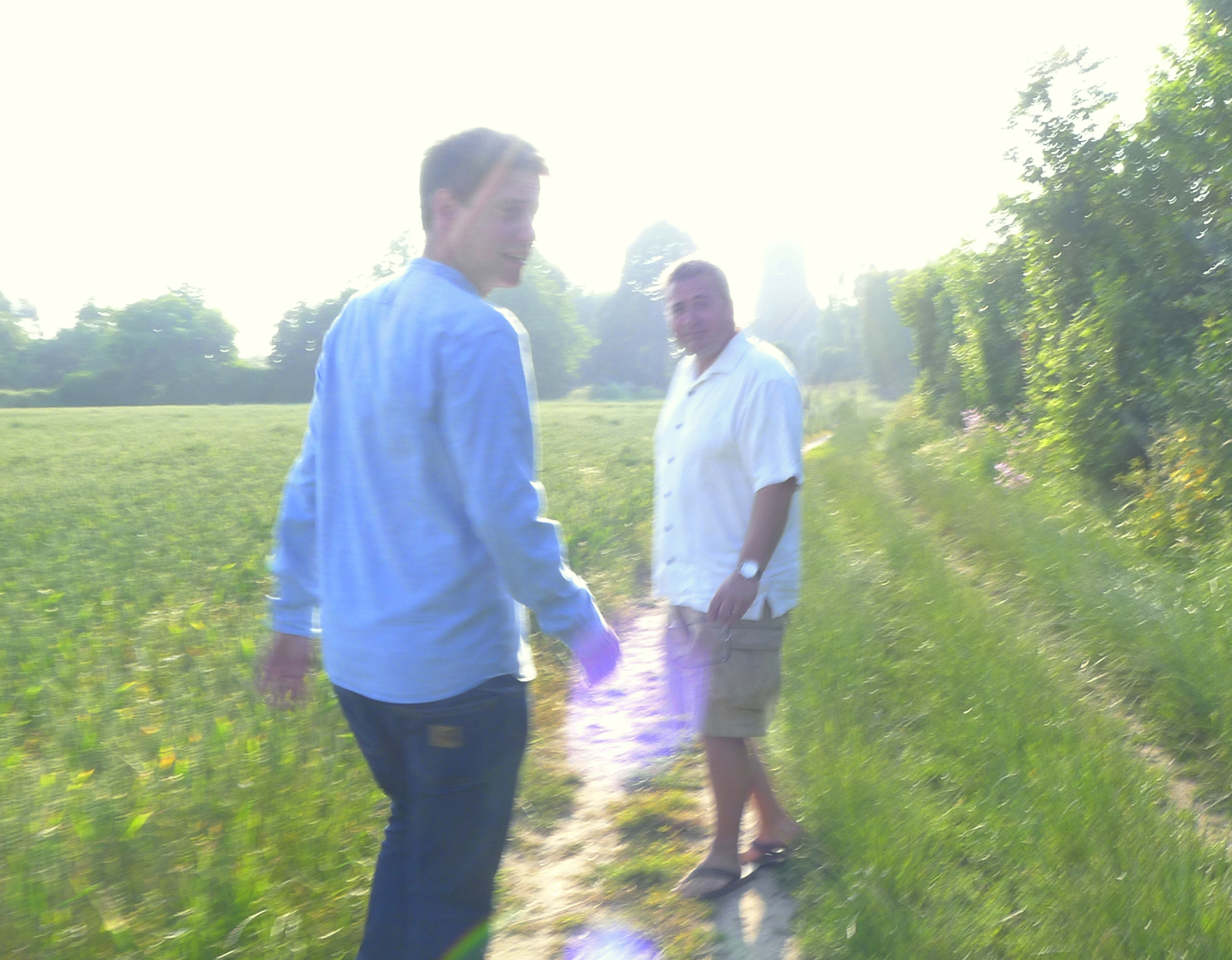 Promo photo of UK electronic band Ultramarine; photographed in Essex, UK, July 2013.